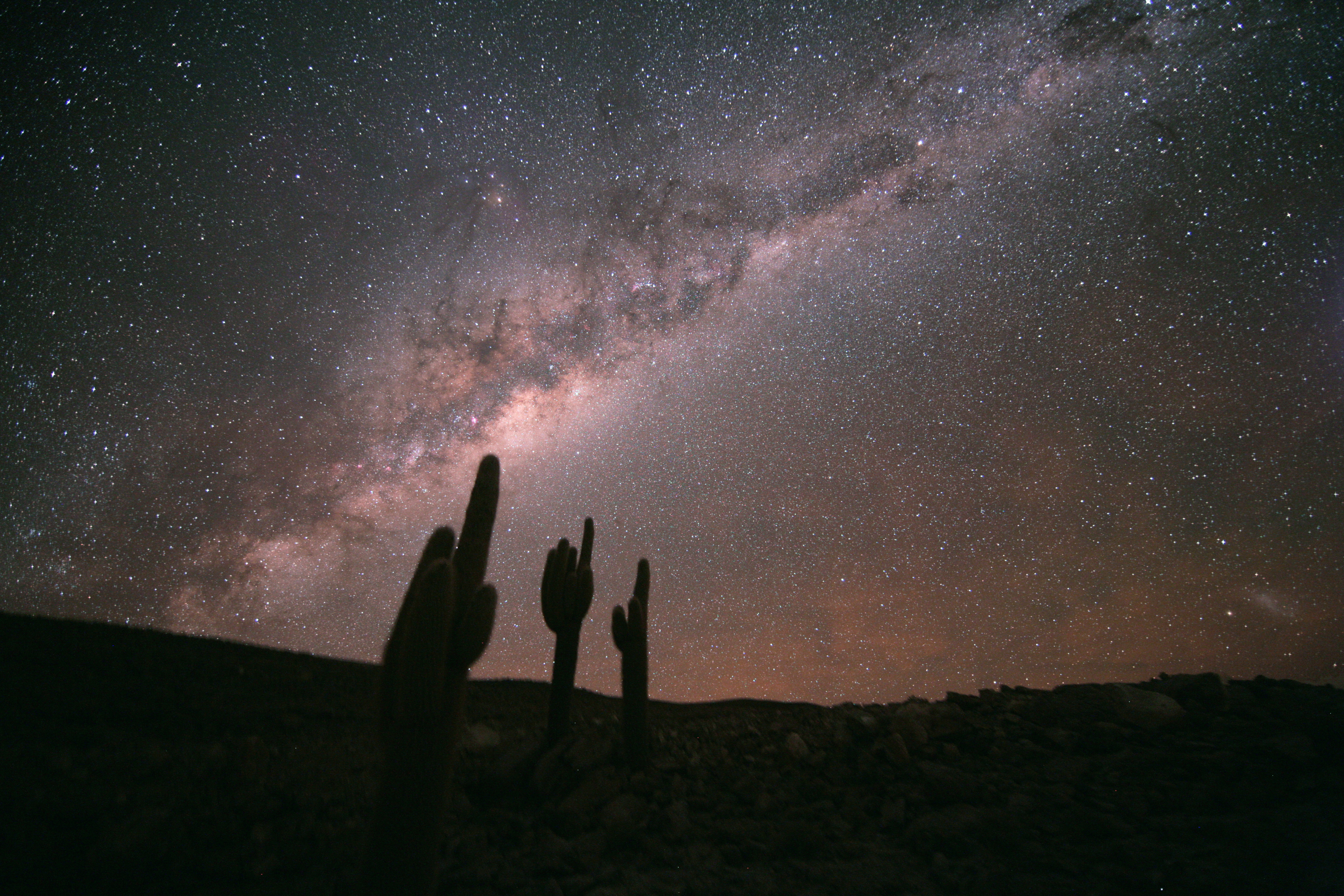 The winding road connecting the ALMA Operation Support Facility at 3,000m altitude to the Array Operation Site (5,000m high) passes an area between 3500m and 3800m dominated by large cacti (Echinopsis Atacamensis). These cacti grow on average 1cm per year, and reach heights of up to 9m. Stephane Guisard recently captured the beautiful sky above this unique location in the Chilean Atacama Desert. The Milky Way is seen in all its glory, as well as, in the lower right, the Large Magellanic Cloud.